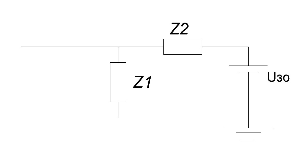 RF Probe scheme